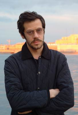 Canonic & composer Yuri Khanon, V-2008 Saint-Petersburg